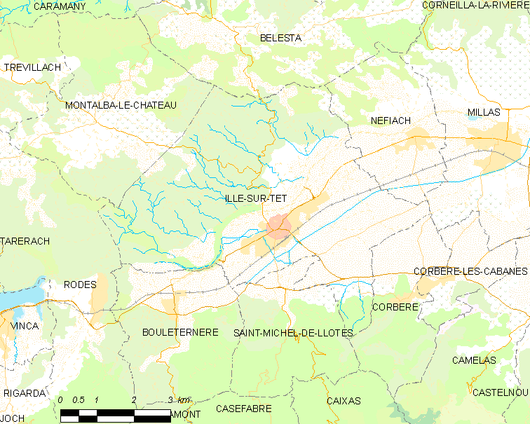 Map of French municipality